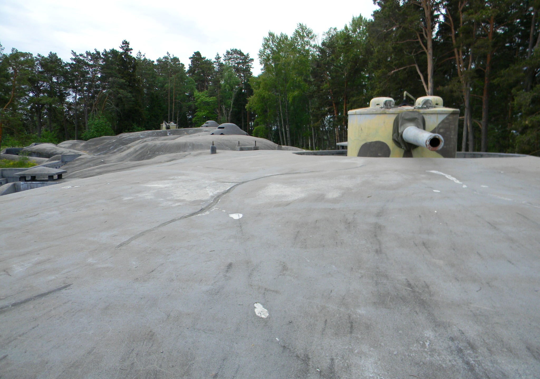 Siaröfortet, coastal defence battery outside Stockholm Sweden